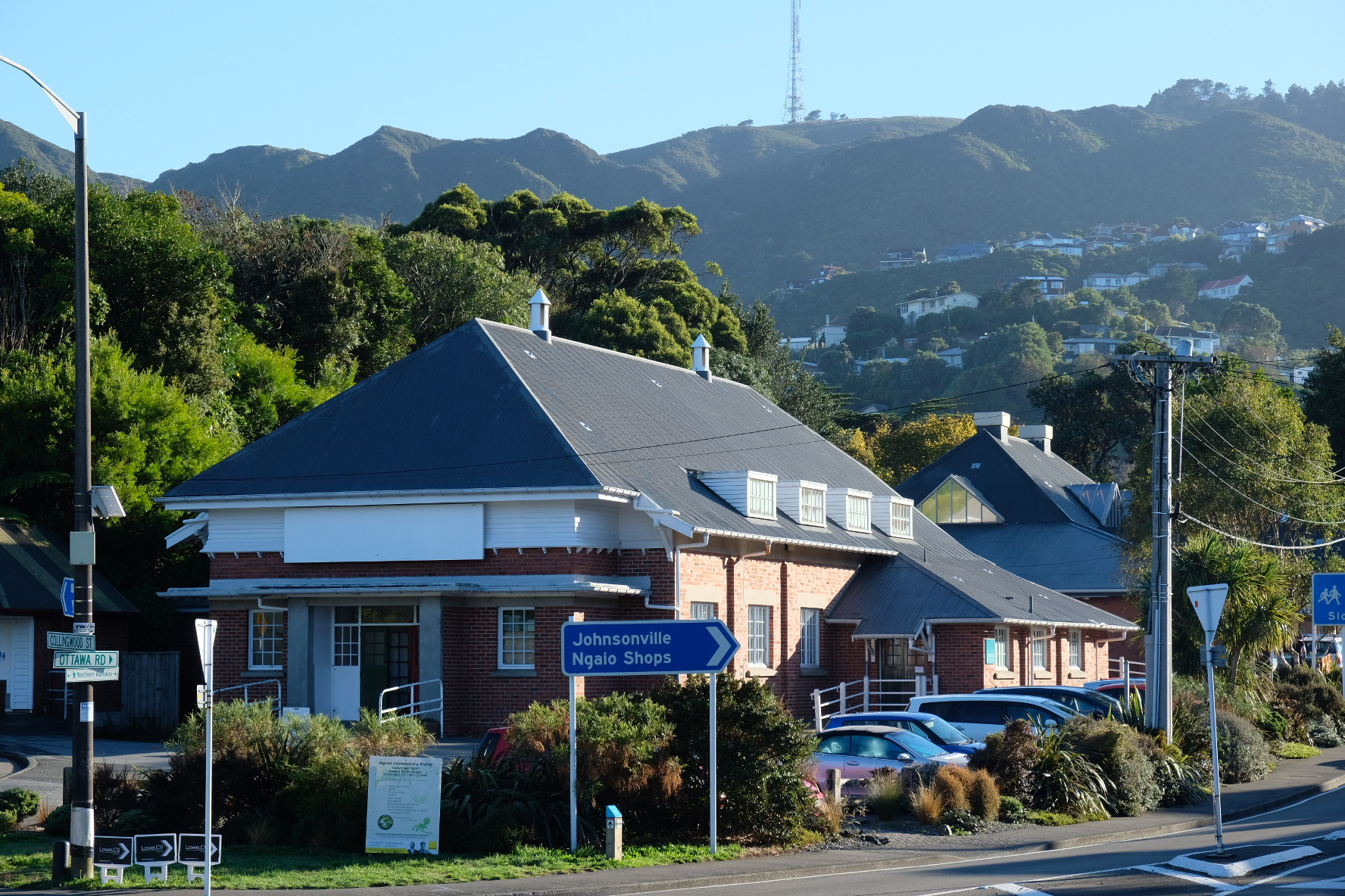 Ngaio Town hall. Photo taken from Crofton Road with Mount Kaukau in the background.